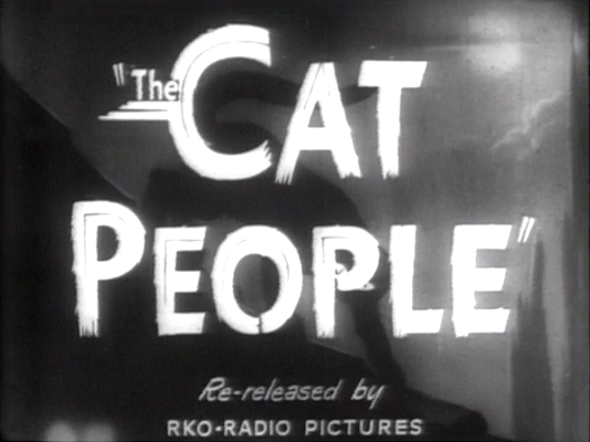 Screenshot of the trailer of Cat People